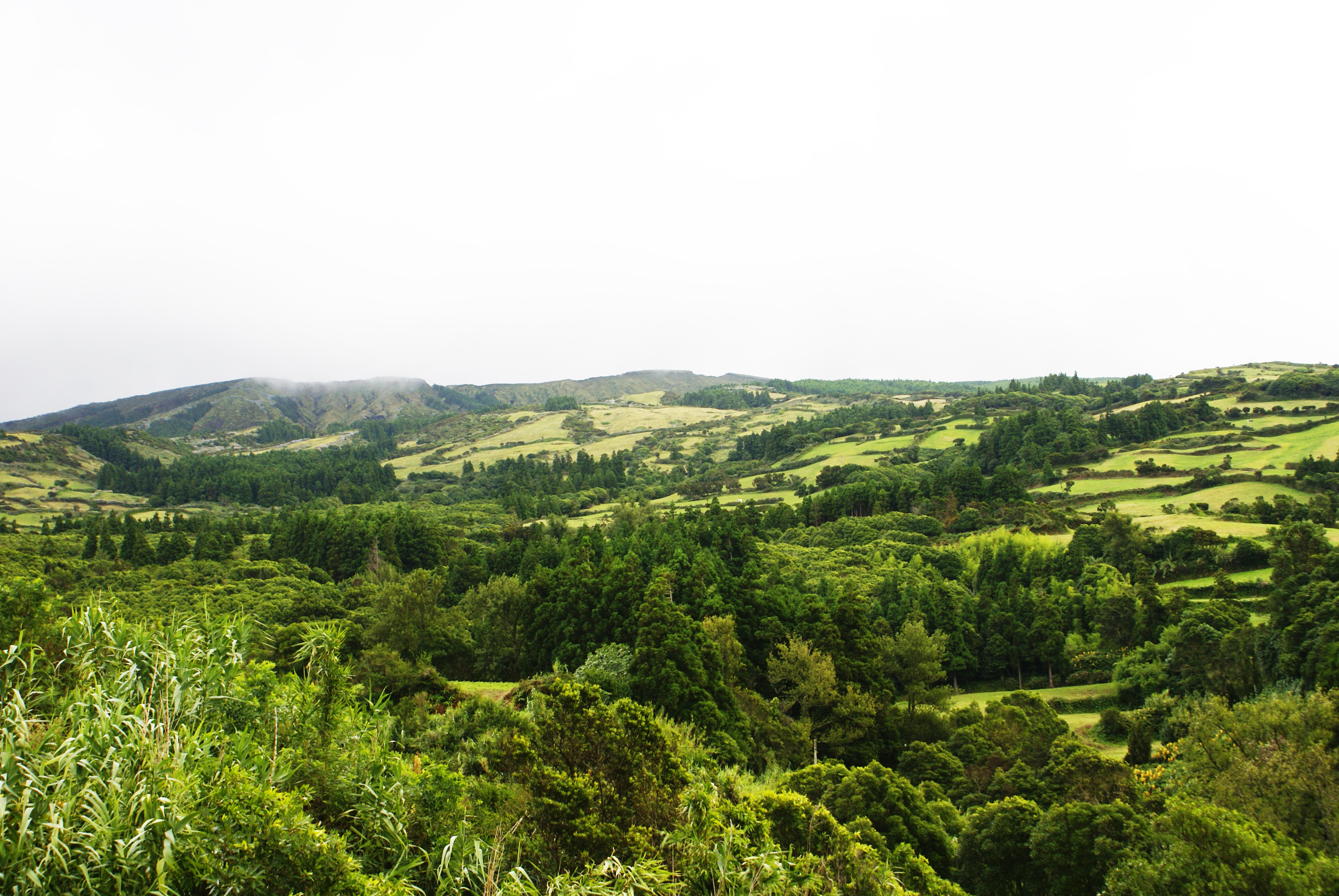 Miradouro da Ribeira das Cabras, Praia do Norte, vistas, Concelho da Horta, ilha do Faial, Açores, Portugal